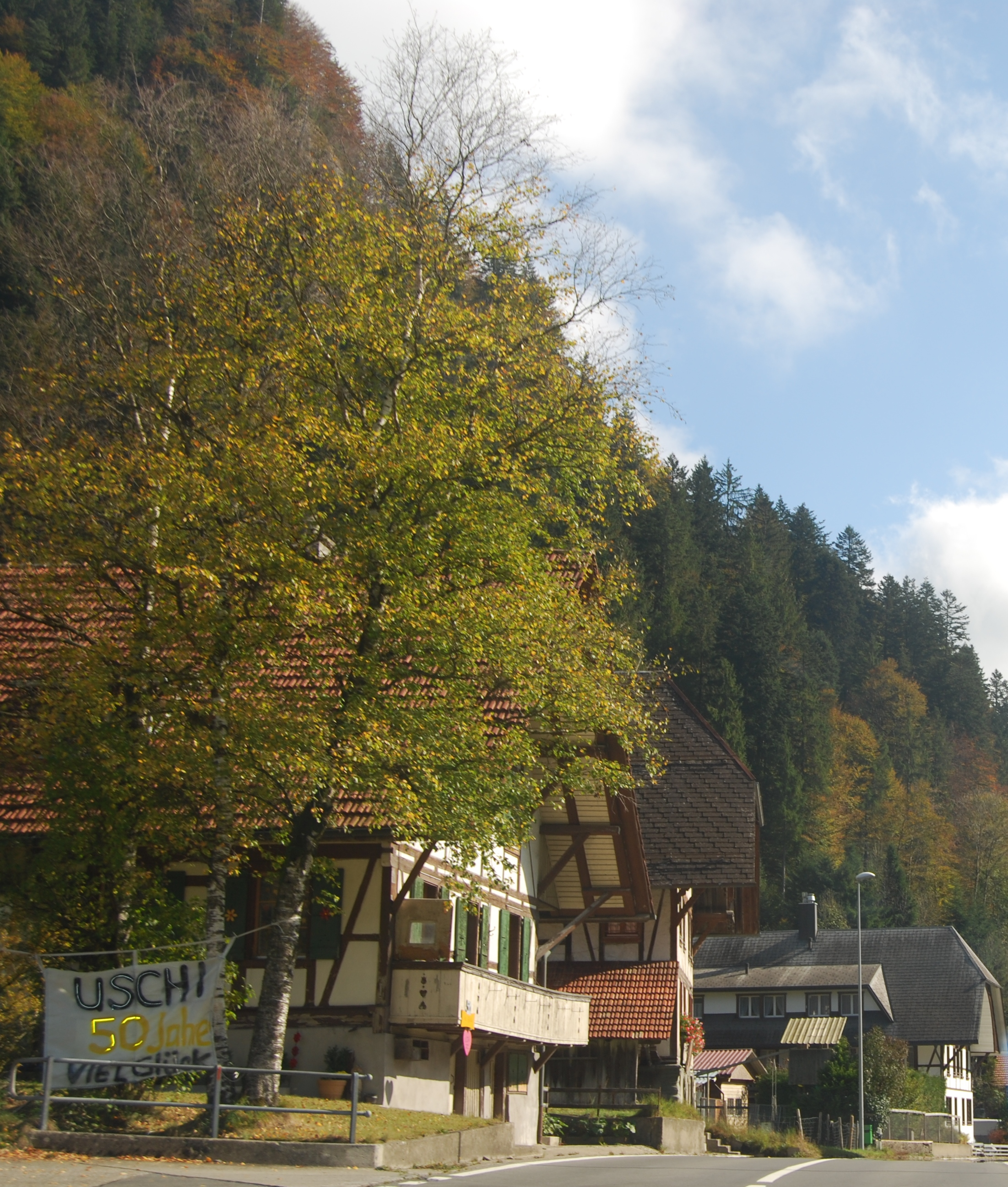 Dürrenbach, municipality of Escholzmatt, canton of Luzern, SwitzerlandEsperanto: Dürrenbach, komunumo Escholzmatt, Kantono Lucerno, Svislando